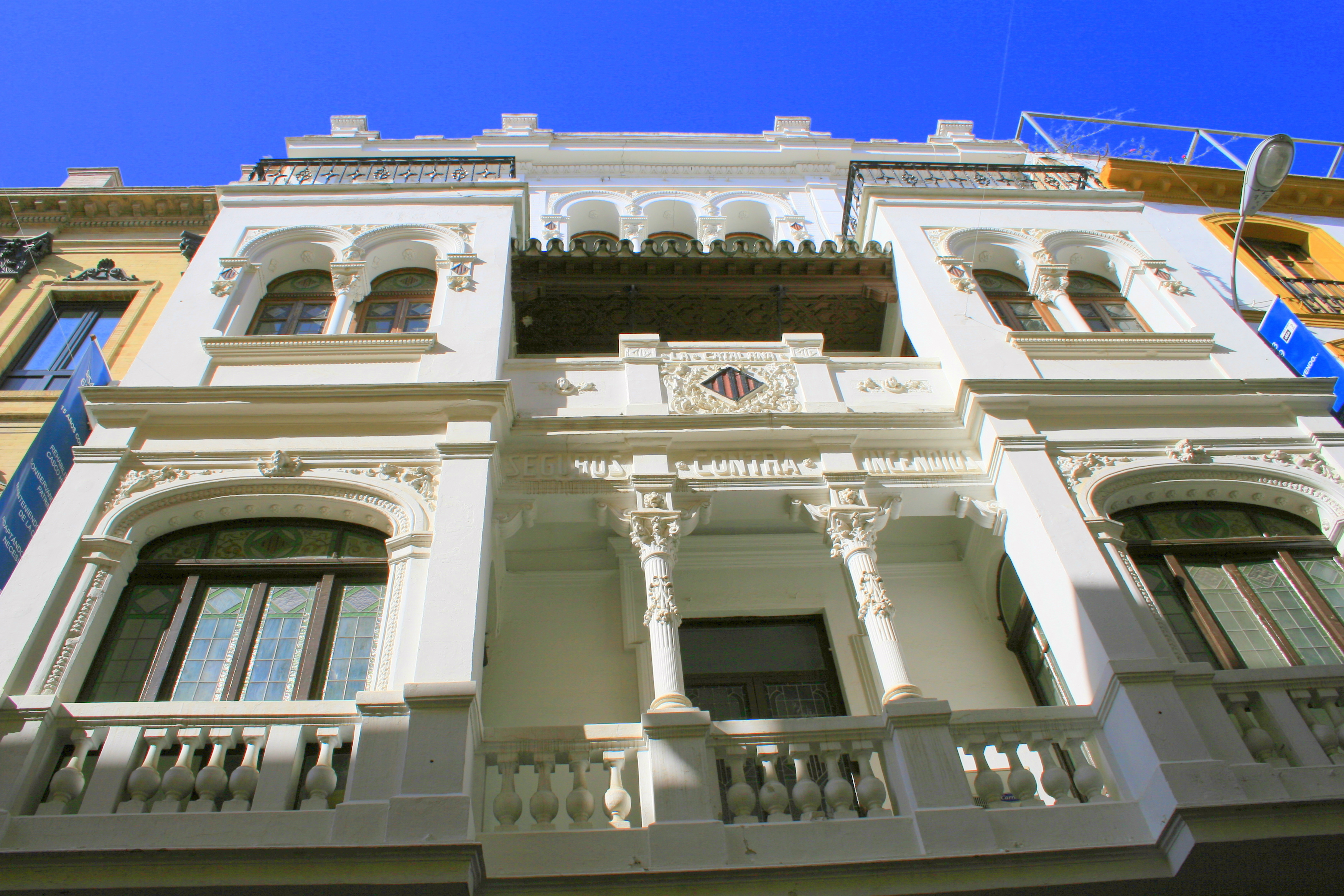 House in Sierpes Street number 20 (used to be number 22) in Seville, Spain. The architect of the house was José Espiau y Muñoz. One of the most representative architects of the first half of the twentieth century. His study was located in the second floor of this building, and from there he conceived some of the most remarkable buildings of the city of Sevilla, including the world-famous Alfonso XIII hotel